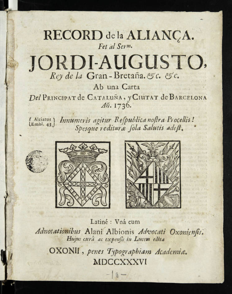 "Record de l'aliança", Catalan language book published in Oxford in 1736. Written by Rafael Casanova.